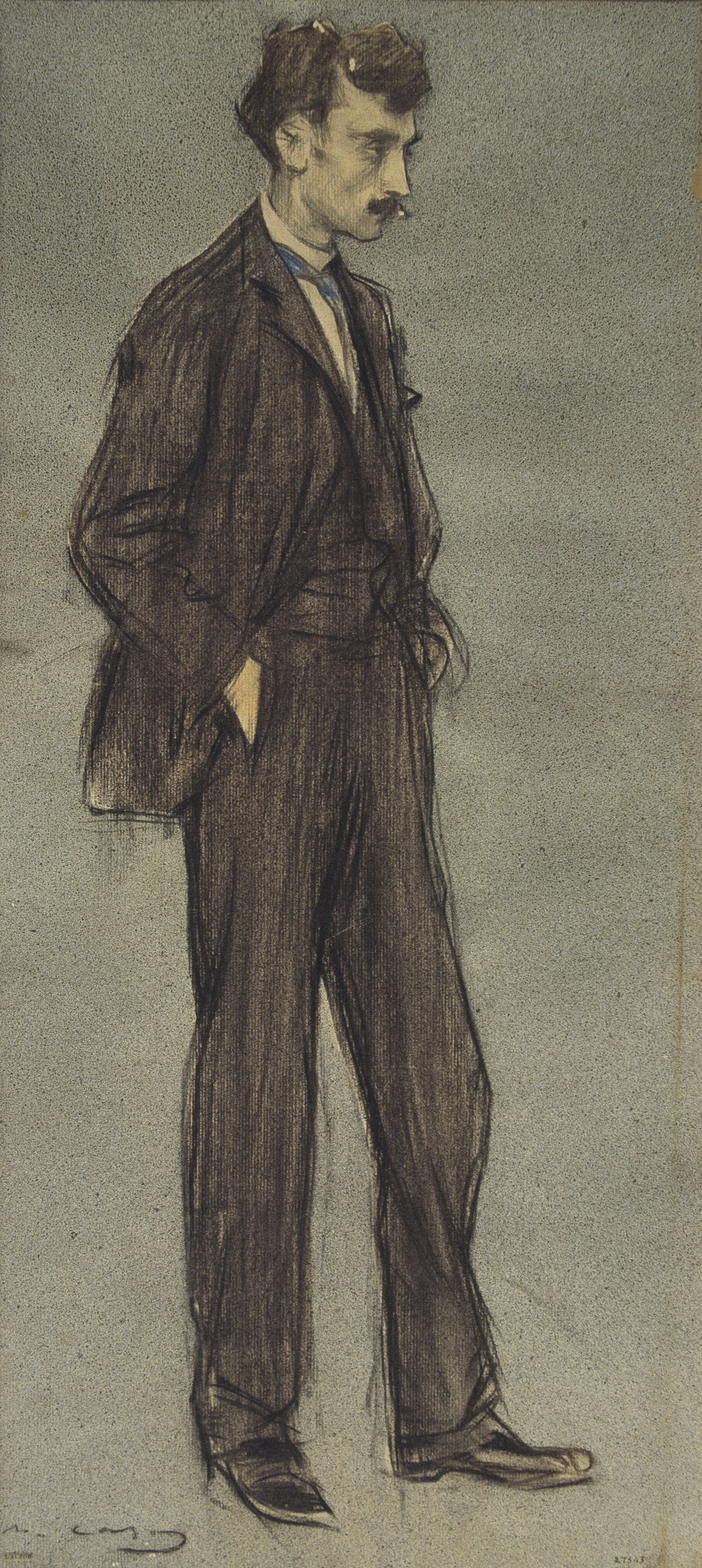 Portrait by Ramon Casas conserved at MNAC in Barcelona. Imagen 039